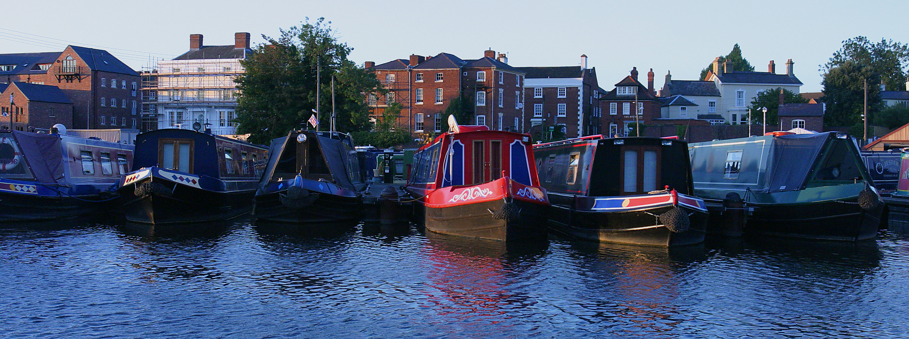 Boats on the Canal Basin at Stourport-on-Severn, England